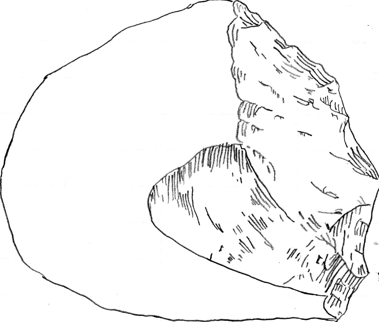 A rough sketch of stone tools found in Olduvai Gorge. Referred to as the Oldowan Tool Industry, they represent the earliest man- made tools that have yet been found (the oldest dating to around 2.5 million years ago); they are distinct for their simplicity. This drawing shows two choppers, which likely would have been used, along with flakes, to remove the meat from animal bones.